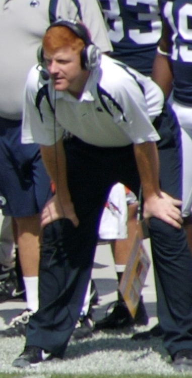 Mike McQueary coaching from the sideline